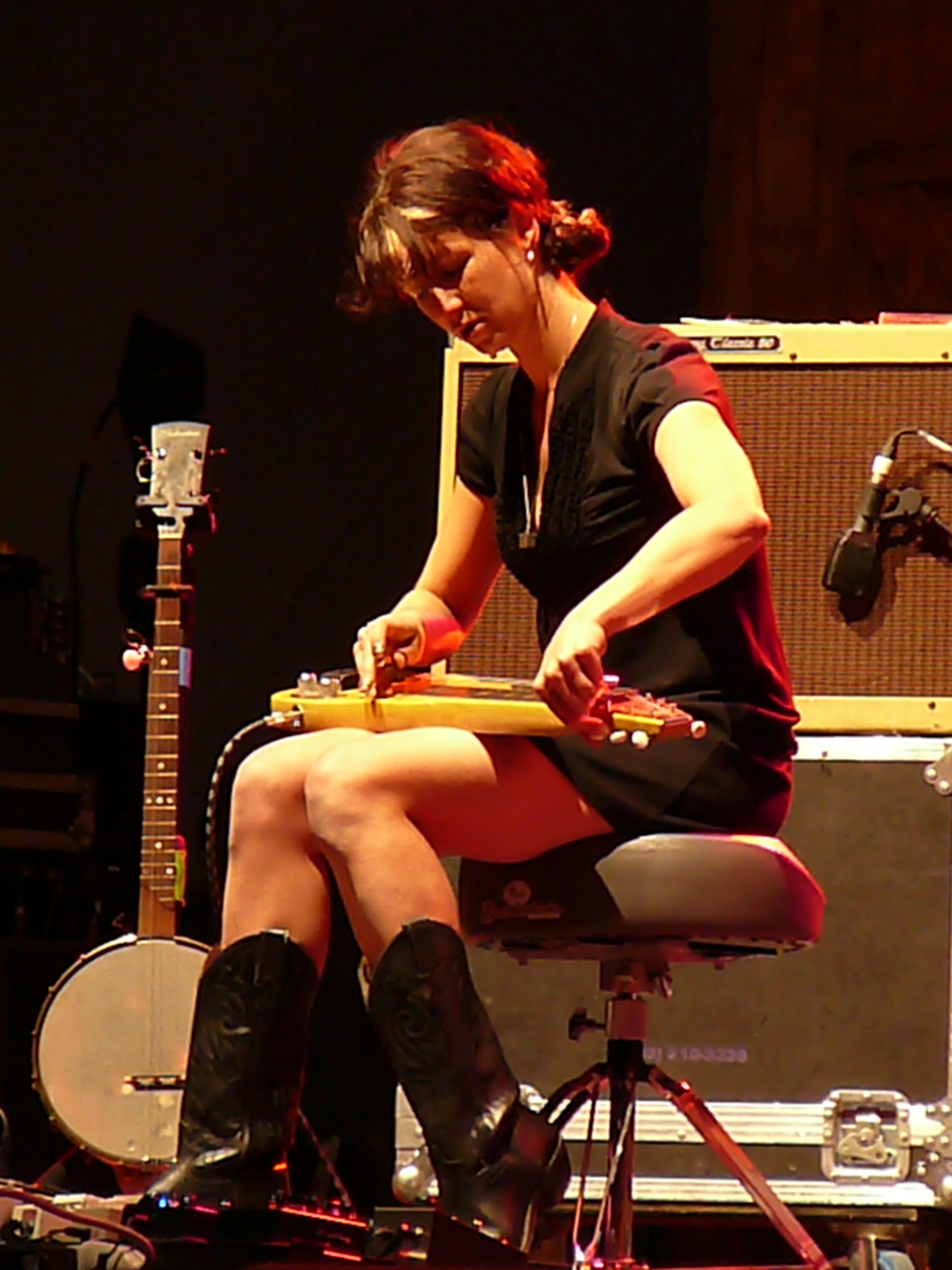 Winnipeg Folk Festival - main stage, Manitoba, Canada, July 11, 2009